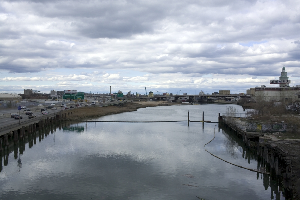 Photo of the Flushing River taken by Tom Giebel in Queens, New York City on Apr 13, 2008. Atomische